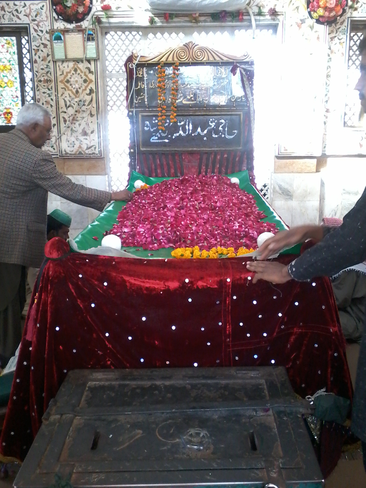 Shrine of Hazrat Bulleh Shah This is a photo of a monument in Pakistan identified as the PB-P-48